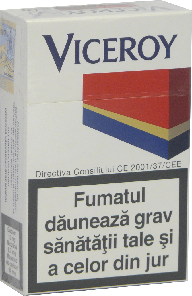 Viceroy cigarettes box Romania